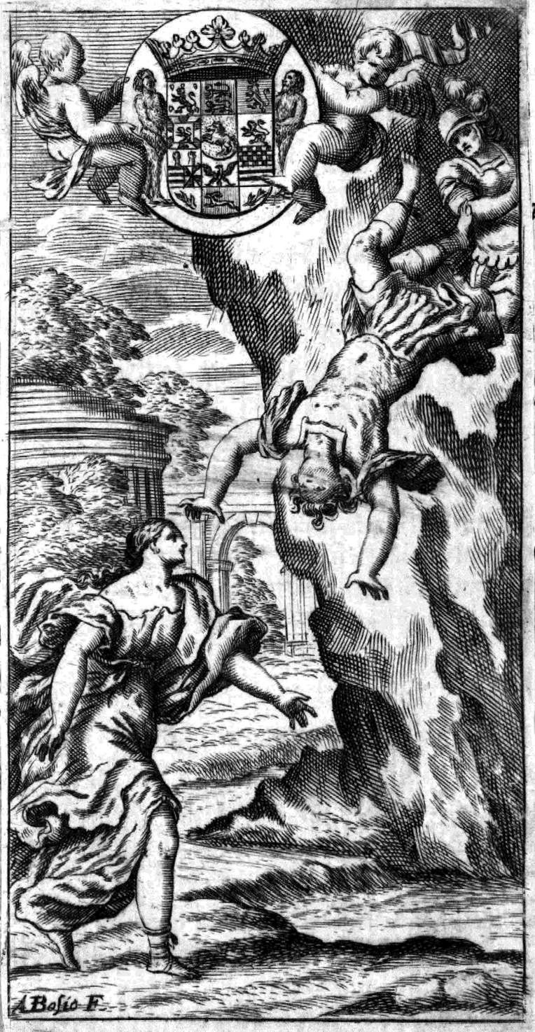 Gaetano Latilla - Temistocle - picture from the libretto - Rome 1737